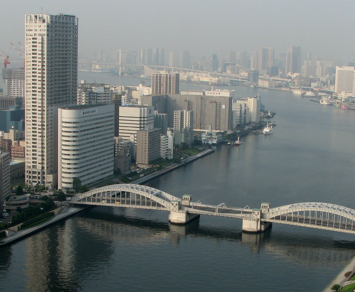 The Kachidokibashi over the Sumida River in Tokyo